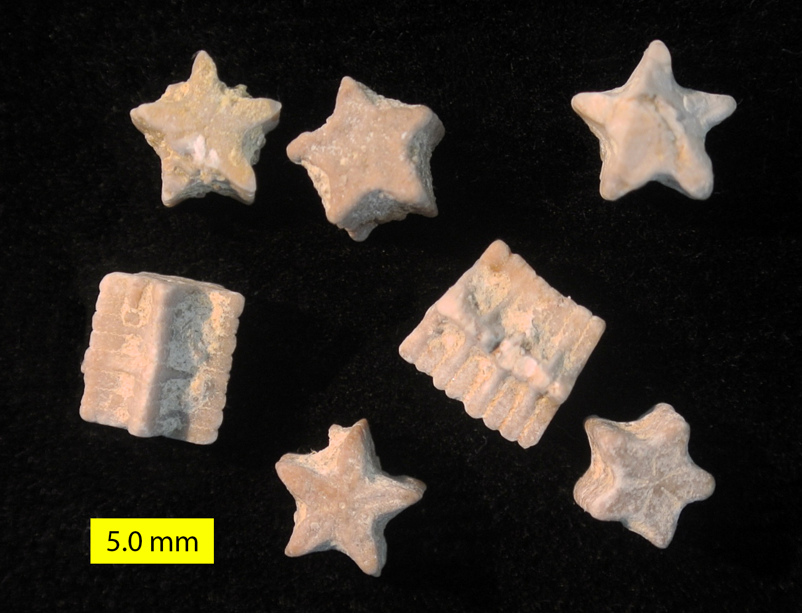 Isocrinus nicoleti columnals from the Carmel Formation (Middle Jurassic) of Kane County, Utah.